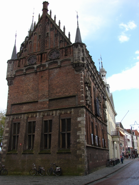 Kampen cityhall (Netherlands)